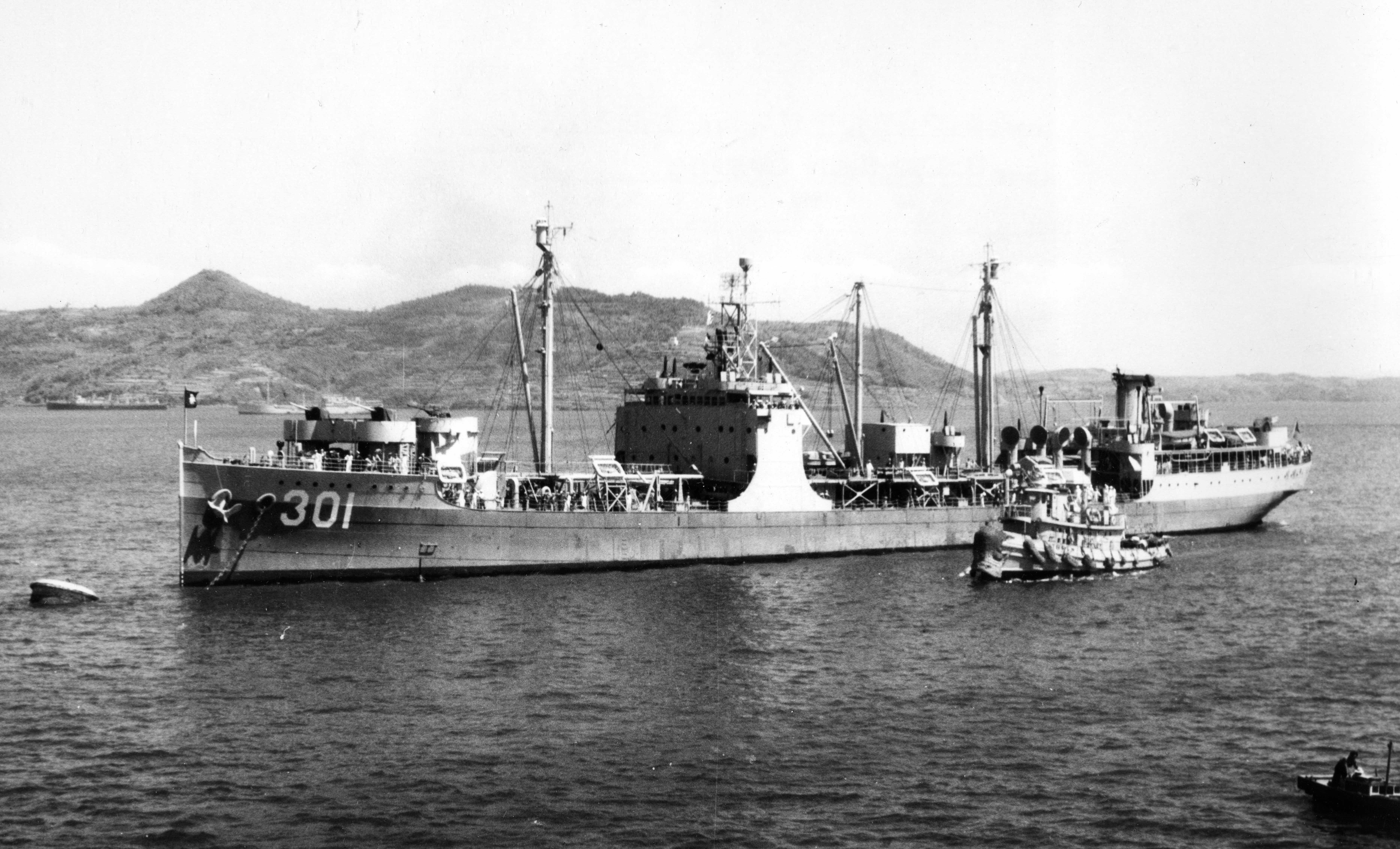 Painted in a graded scheme reminiscent of that worn during her time in the U.S. Navy during World War II, the Repubilc of China Navy oiler Omei (AO-301) lies moored to a buoy at Sasebo, Japan, on 1 July 1951. Omei was the former U.S. Navy fleet oiler USS Maumee (AO-2) which was transferred to the Republic of China on 5 November 1946. She served until 1967. The photo was taken from the U.S. Navy escort carrier USS Sicily (CVE-118).